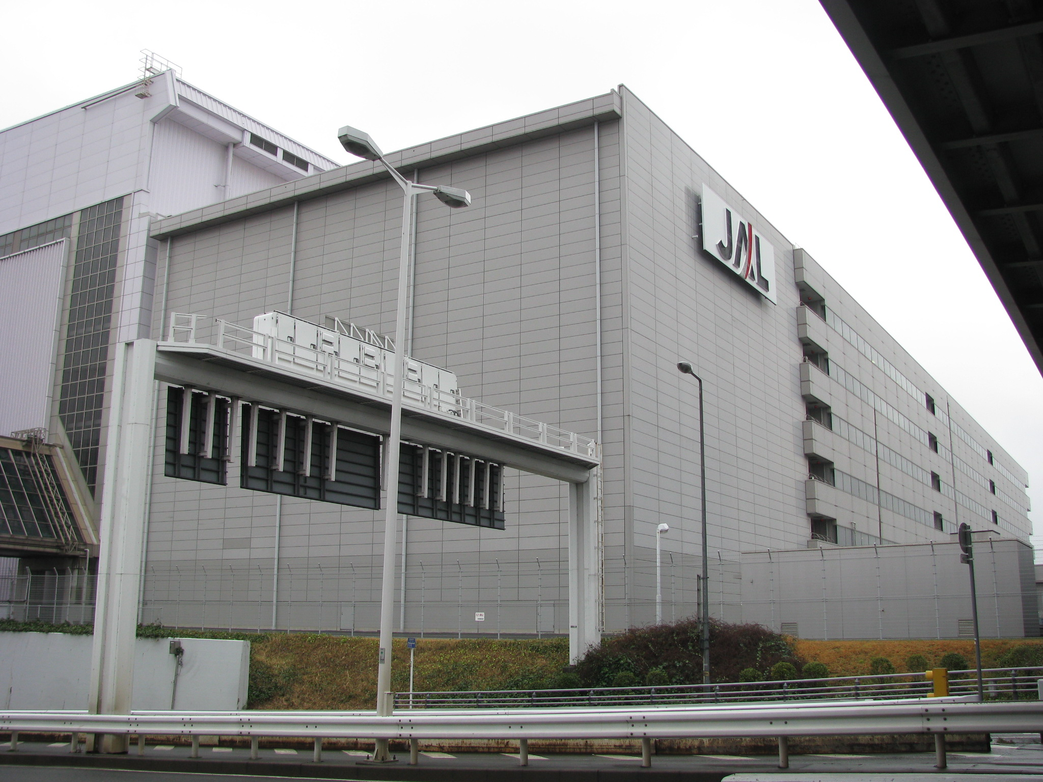 The JAL Maintenance Center Building in Tokyo International Airport. The former Head office of Japan Air System (Haneda Maintenance Center 1 or JAS M1 Building).